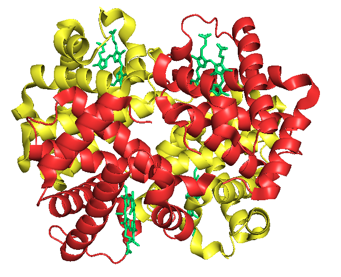 The 2α subunits are shown in red and 2γ subunits in yellow. The 4 heme groups, key in binding oxygen, are shown in green. From | PDB 4MQJ, by authors Soman, J. and Olson J.S.